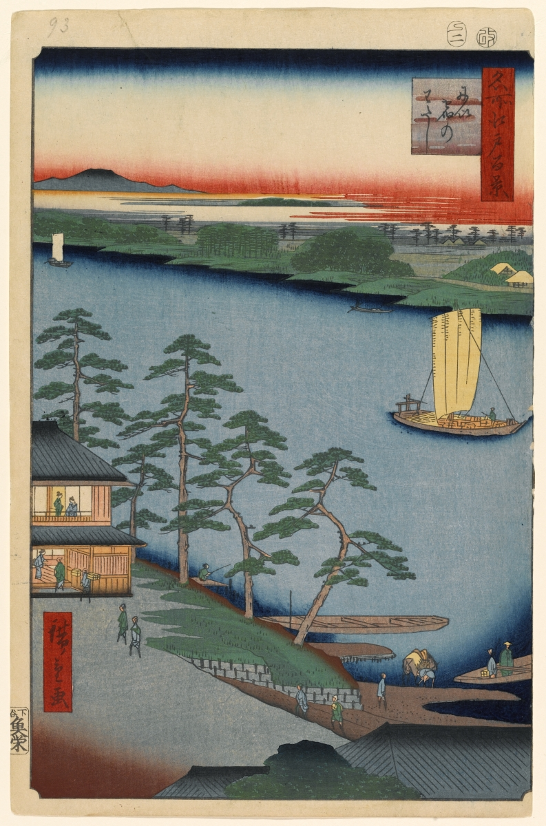 Part of the series One Hundred Famous Views of Edo, no. 093, part 3: Autumn.